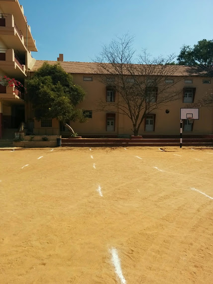 Part of the Clarence High School (Bangalore, India) Playground, behind the old Chemistry Lab.